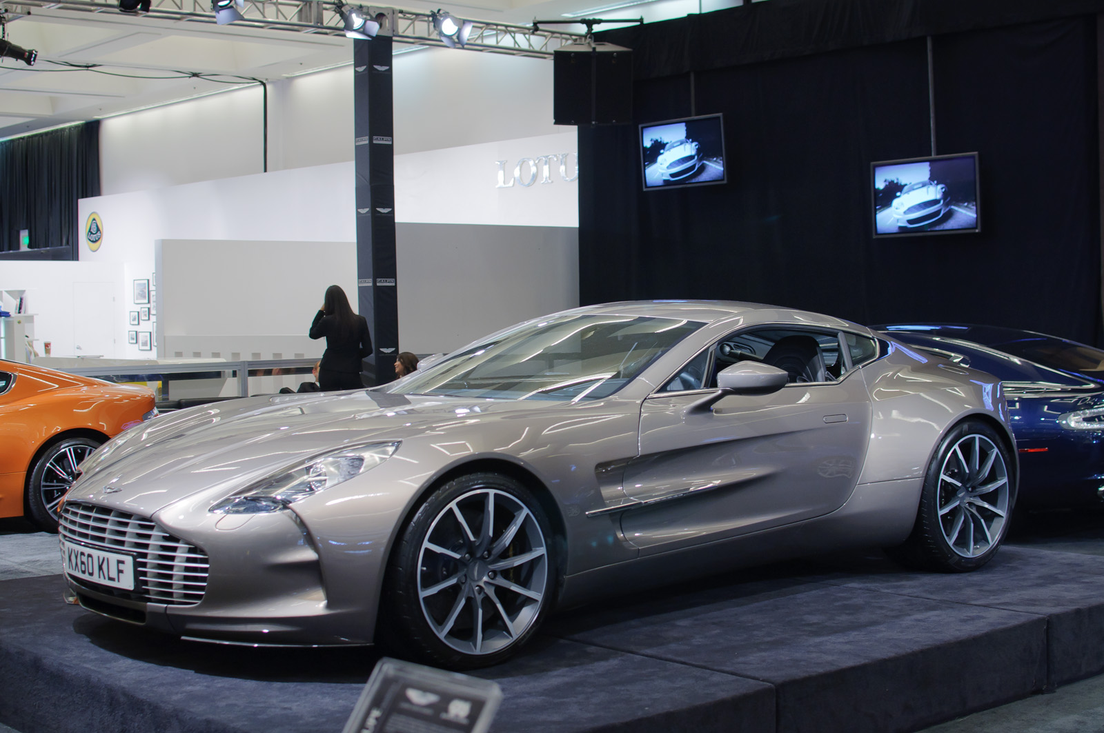 Available by order in very limited quantities. It is powered by a 7.3L V12 engine producing 750 horsepower, and top speed is stated "in excess of 200 MPH." Price tag: £1,150,000! Close to $1.9 million converted to US dollars. This example has British license plates, and based on lack of amber reflectors on the side, certainly is NOT a US-market model, though it is left hand drive. Seen at Los Angeles International Auto Show, 2011.